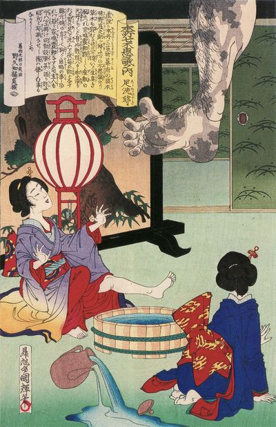 Ashiaraiyashiki, from the Honjo-nana-fushigi, Woodblock print (nishiki-e); ink and color on paper